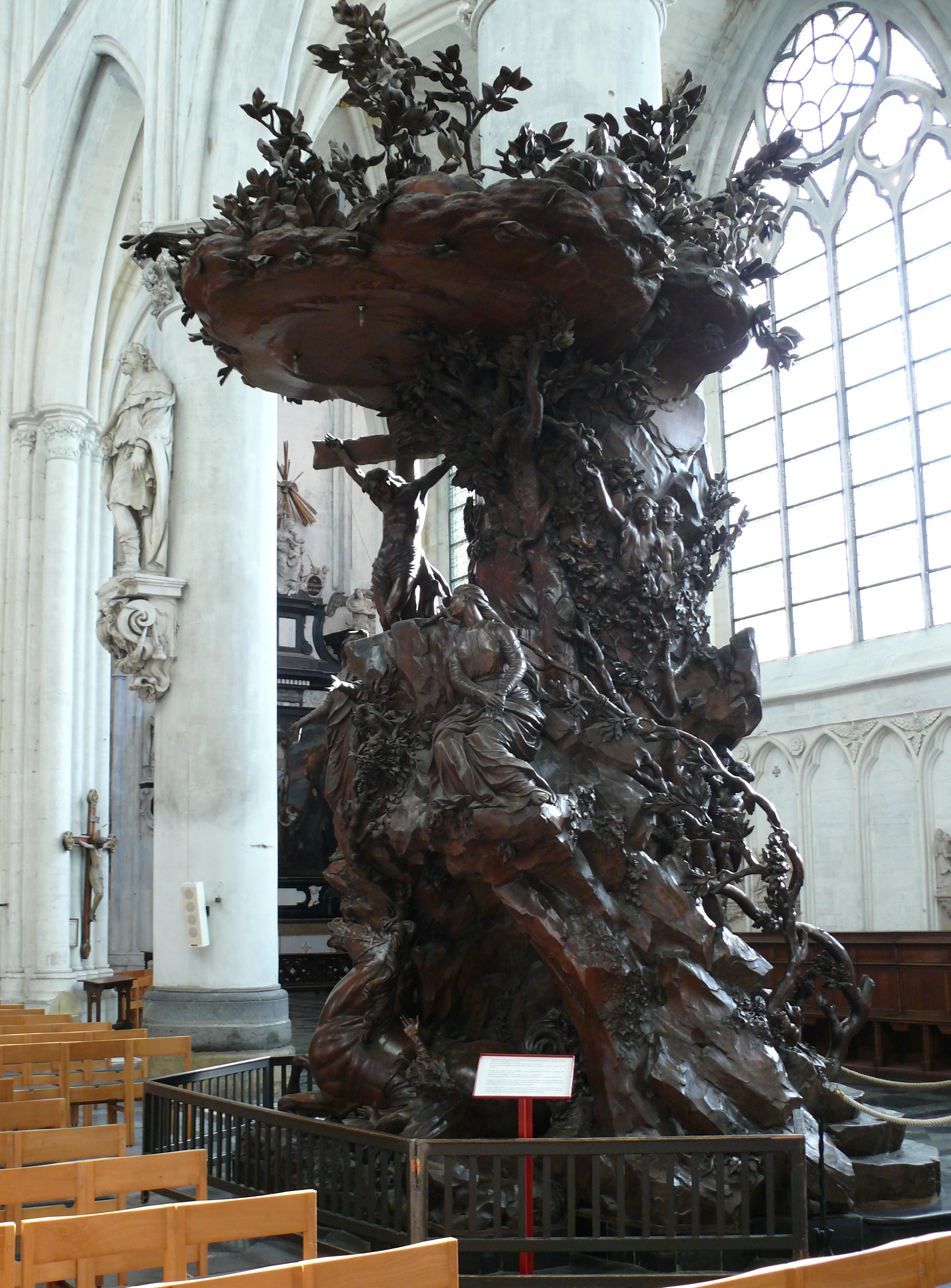 The monumental pulpit of St-Rumbold's Cathedral in Mechelen (Belgium). The pulpit was carved by the Antwerp artist Michiel Vervoort (1667-1737) in 1721-1723 for the cionvent church of the sisters of Norbertus of Leliëndaal (now a jesuit church in the main street Bruul). After the French Revolution the pulpit was installed in the cathedral and built around a column by Jan-Frans van Geel (1756-1830). At the top, to the right one can see the Fall of man, to the left Salvation. At the lower end one sees Saint Norbert (1080-1134) falling of his horse and converting to christianity. The massive construction is particularly known for its depiction of the Garden of Eden with mant animals: a pelican, a salamander, a snake, a snail and a frog. These fine carvings are the work of Theodoor Verhaegen.